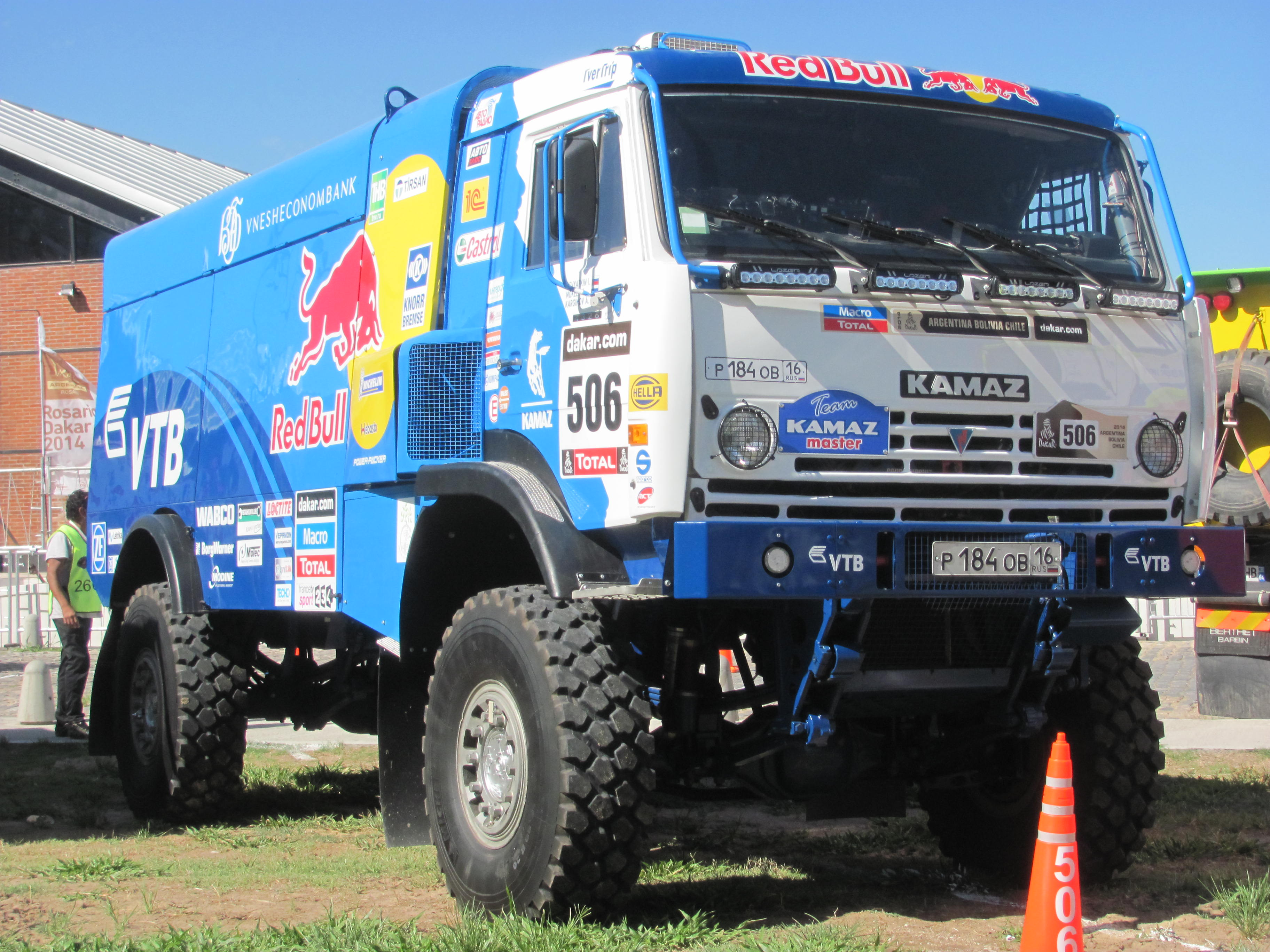 2014 Dakar Rally trucks before the start of the event